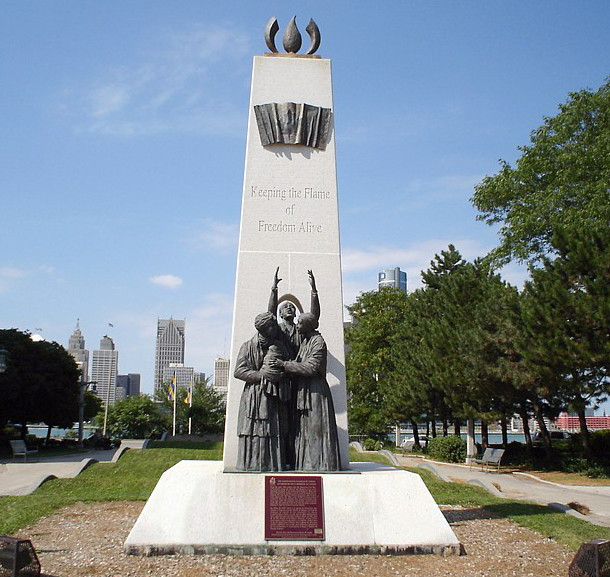 An Underground Railroad To Freedom monument, facing north-northwest from up Windsor's Civic Esplanade with the Detroit skyline distant across the river, from Pitt Street East, between Goyeau Street and McDougall Street, in Windsor, Ontario, Canada.